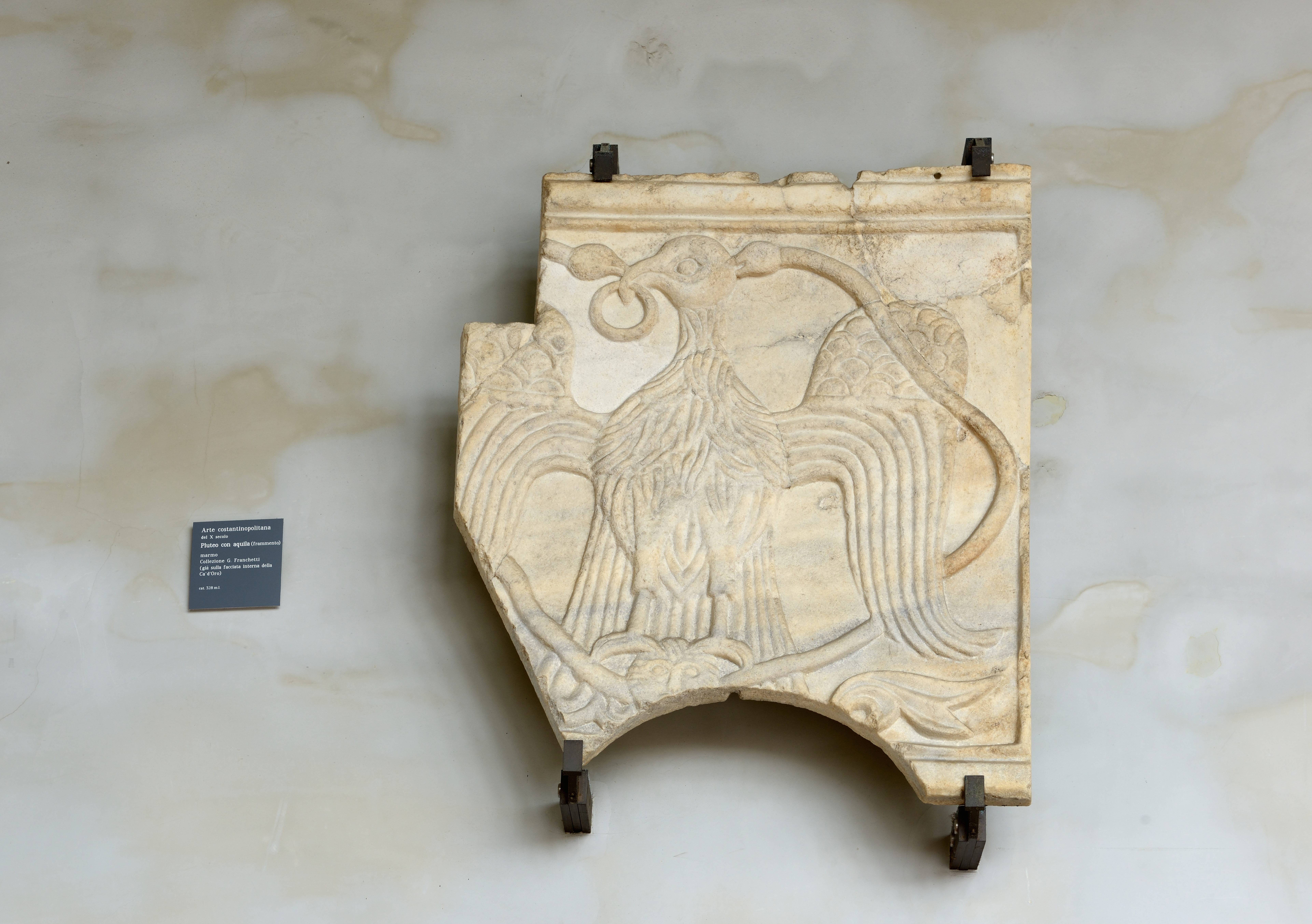 Pluteus with eagle bizantine art in the Galleria Franchetti,Ca' d'Oro., Venice - Fragment of balcony formerly on the outside of the Ca'd'oro.